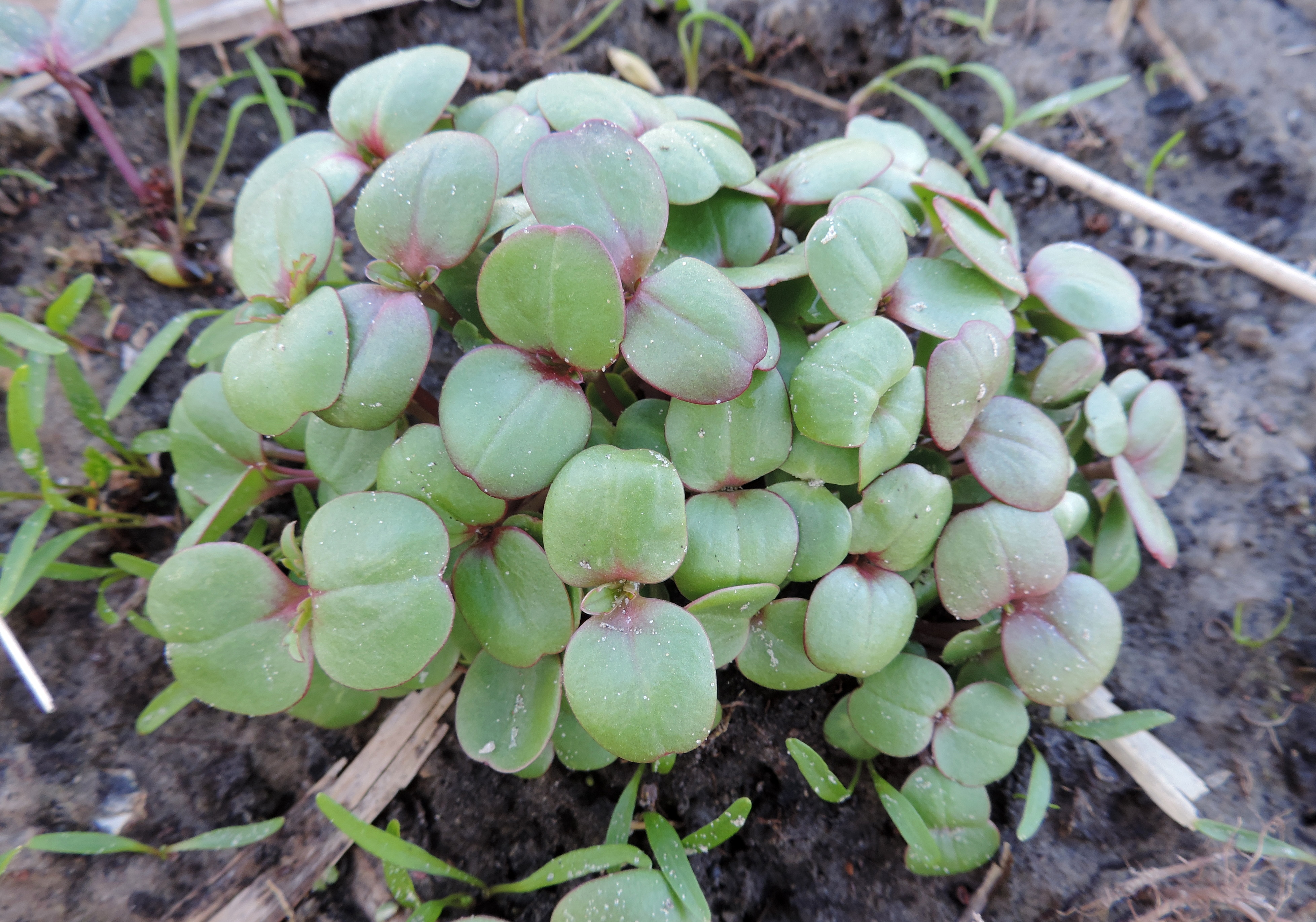 Seedlings of Impatiens glandulifera. Szczecin, NW Poland